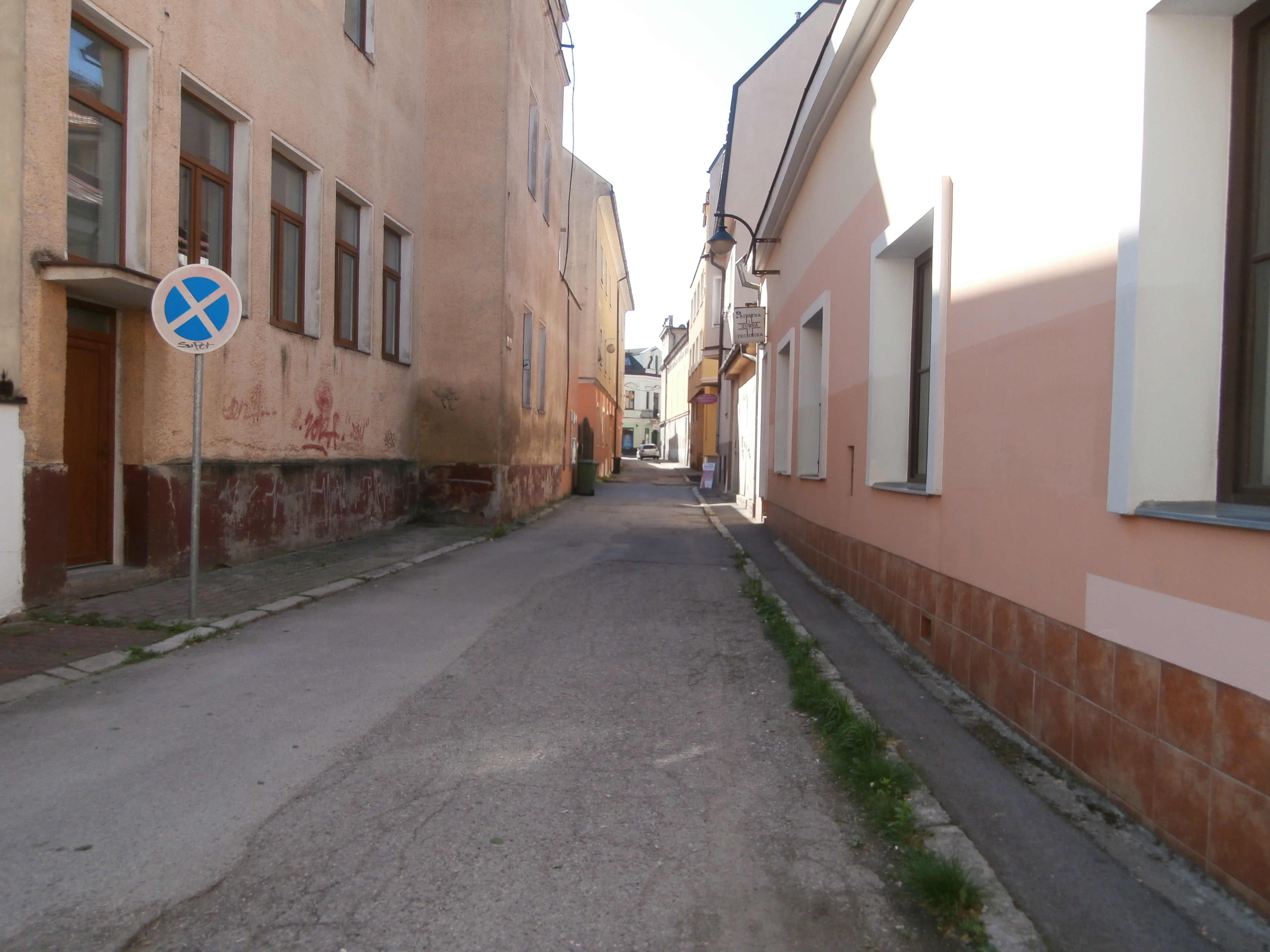 This is a street in Žilina.